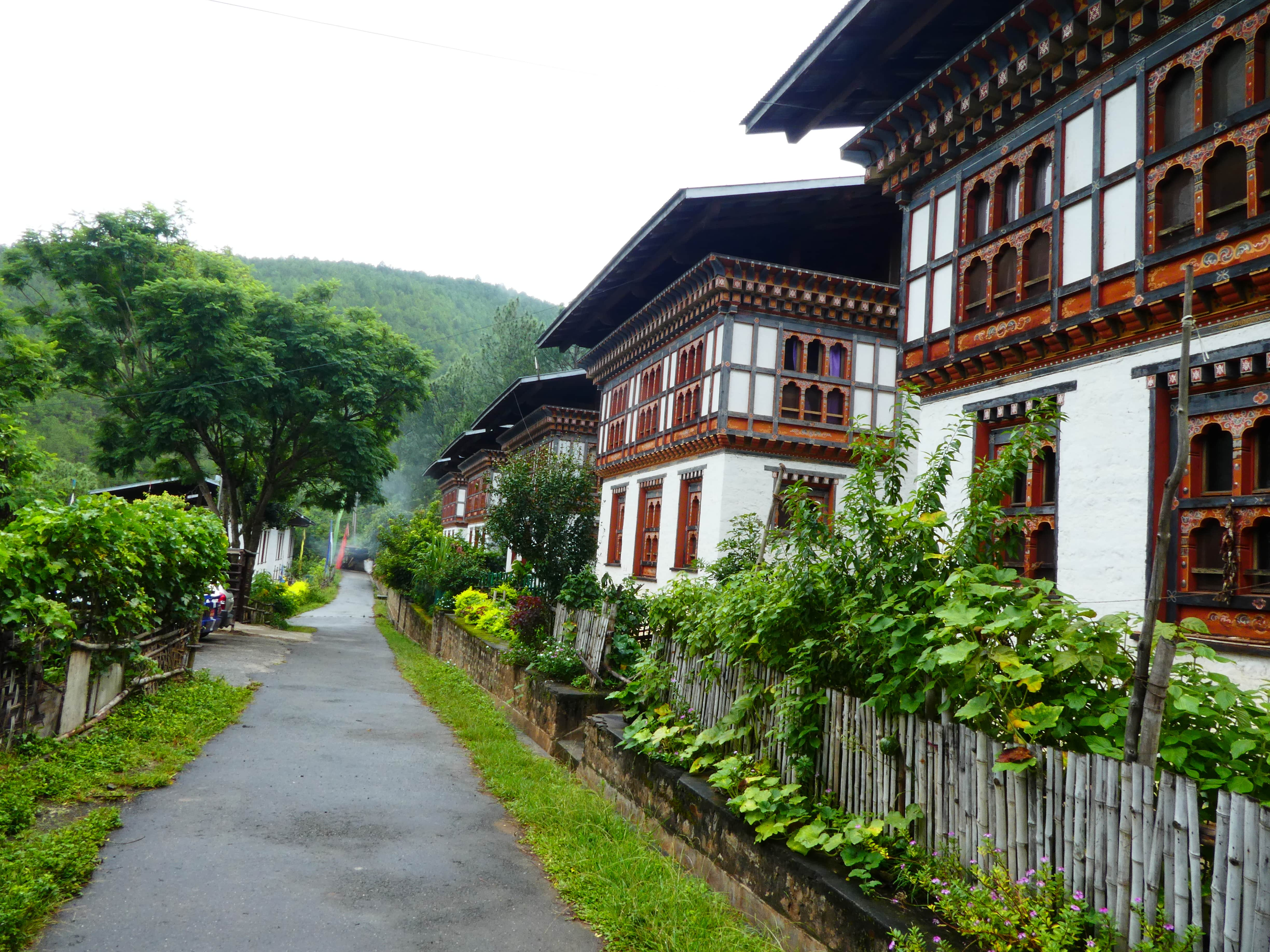 CNR Village aka staff residence